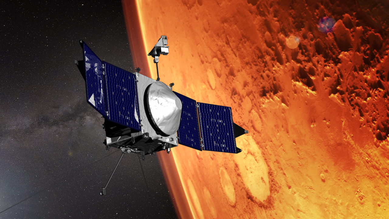 The MAVEN spacecraft and the limb of Mars